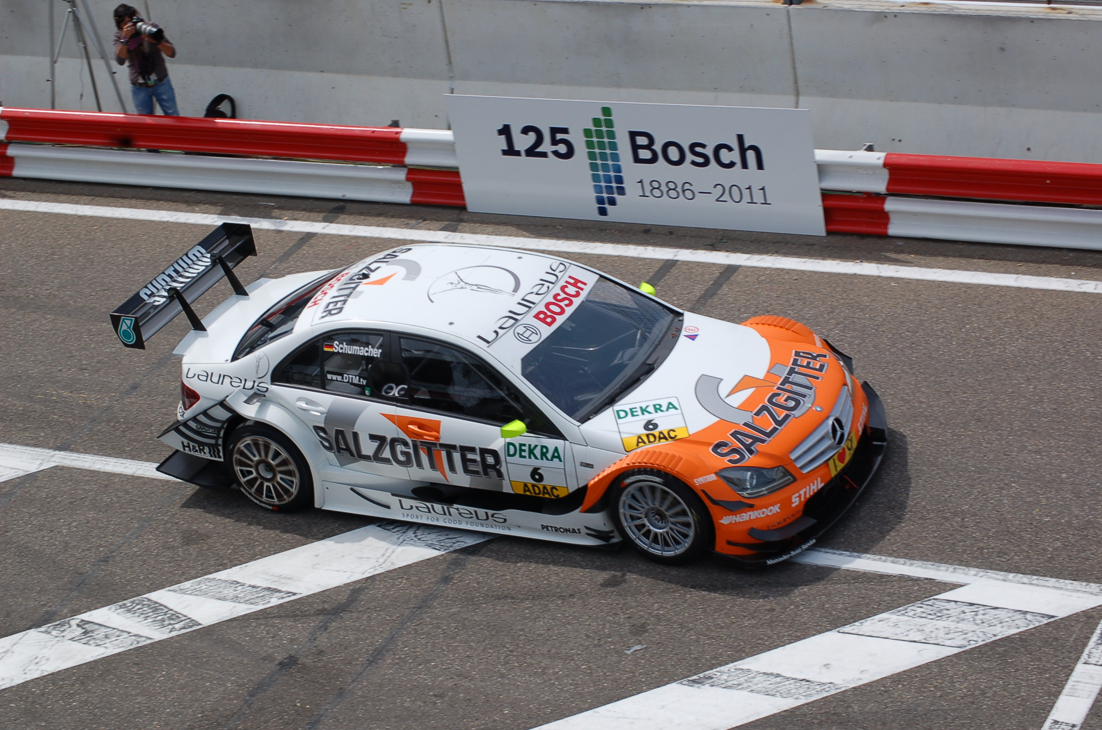 Ralf Schumacher's DTM-Car 2011